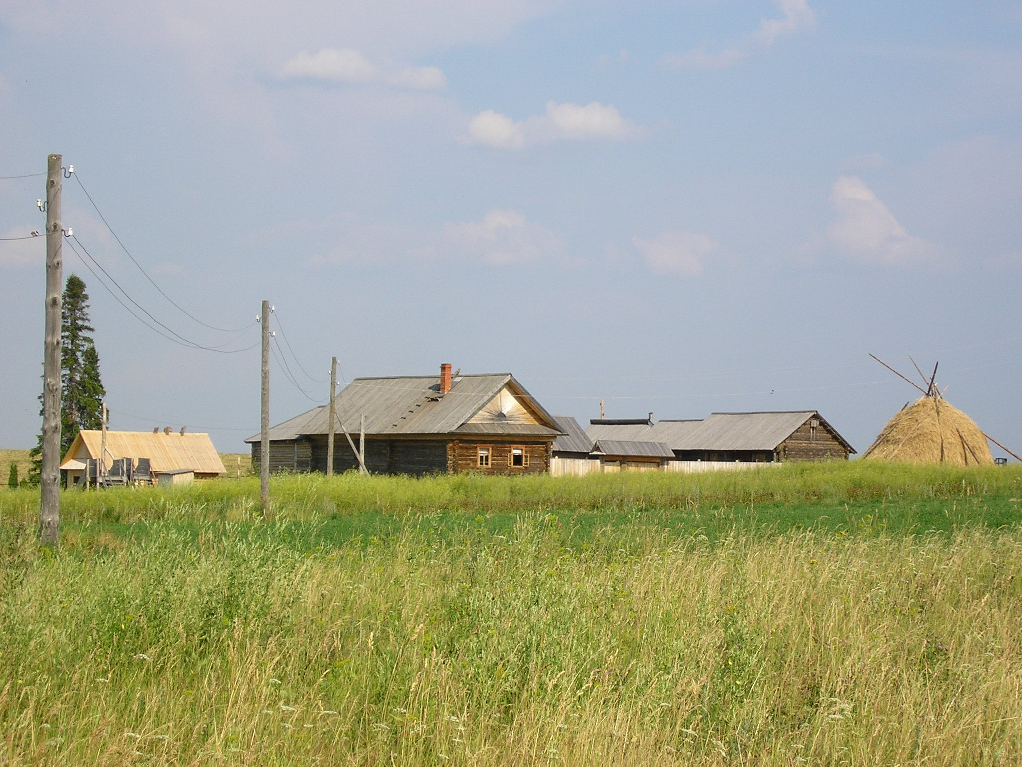 Everything's supposed to look authentic for traditional life in the late 19th and early 20th centuries, except, I suppose, for the electric poles.